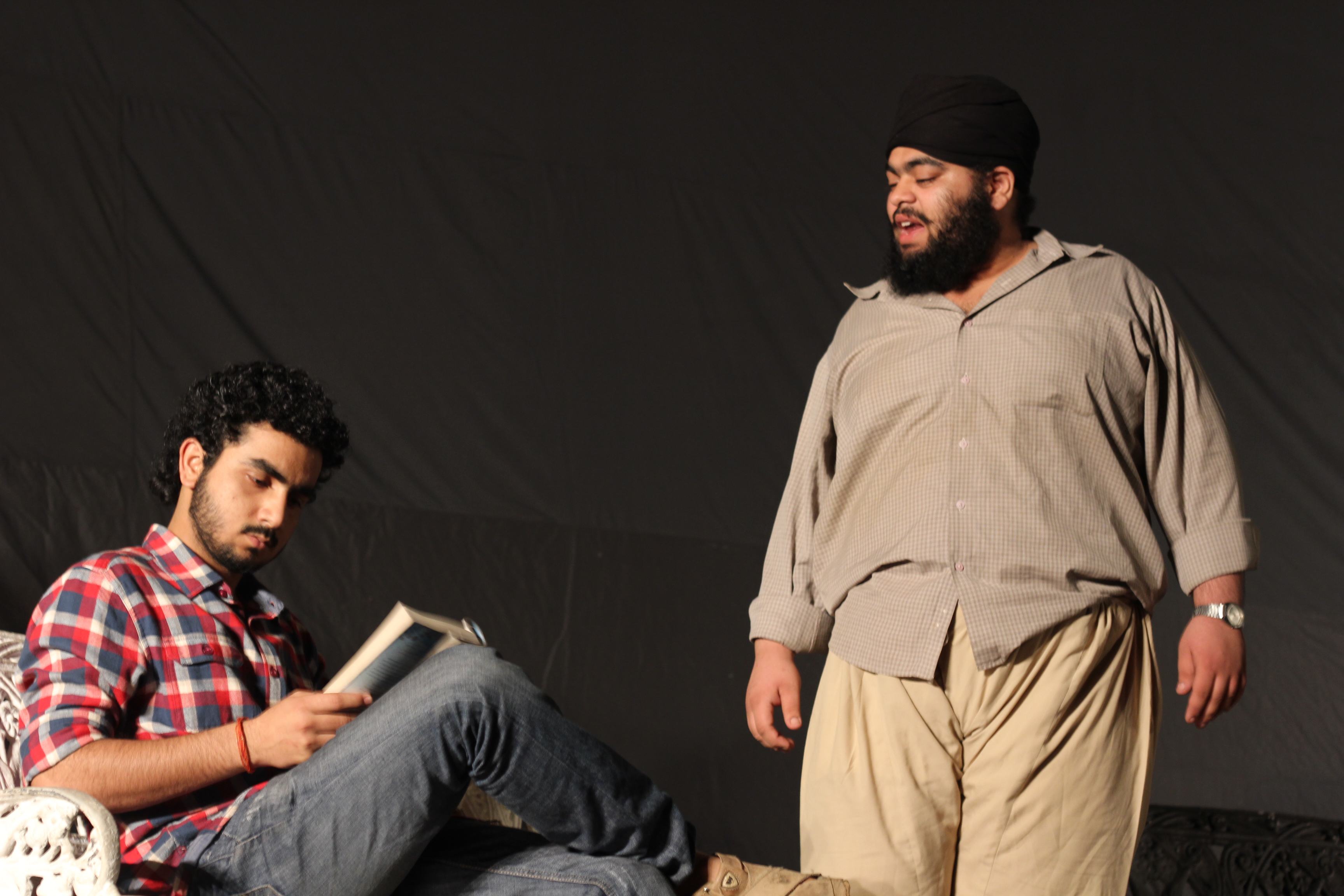 Khalsa college in finals of third bell - the theatre competition at Mood Indigo